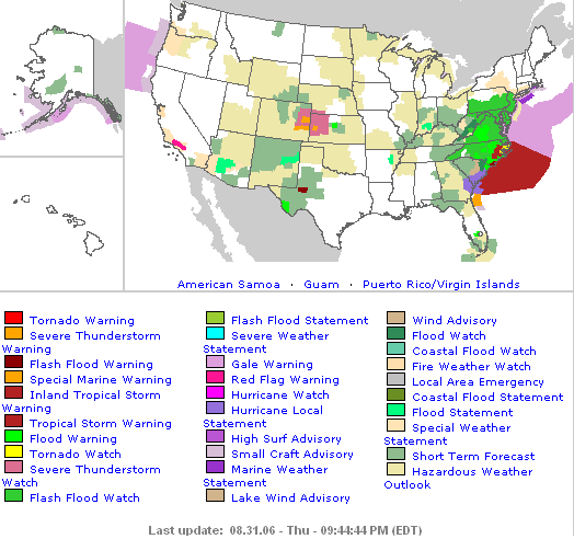 Public domain. Please don't update due to the storm being near its peak at this point. This is NOAA watches and warnings in the United States, close to the point of Ernesto making landfall.